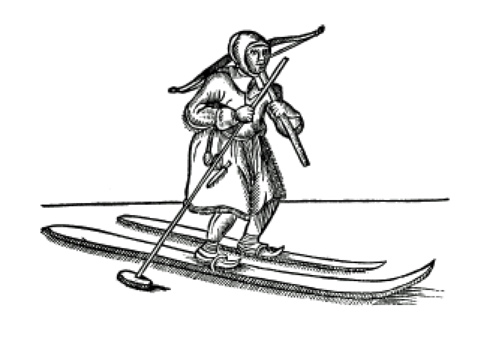 Sapmian skier, woodcut of 1673